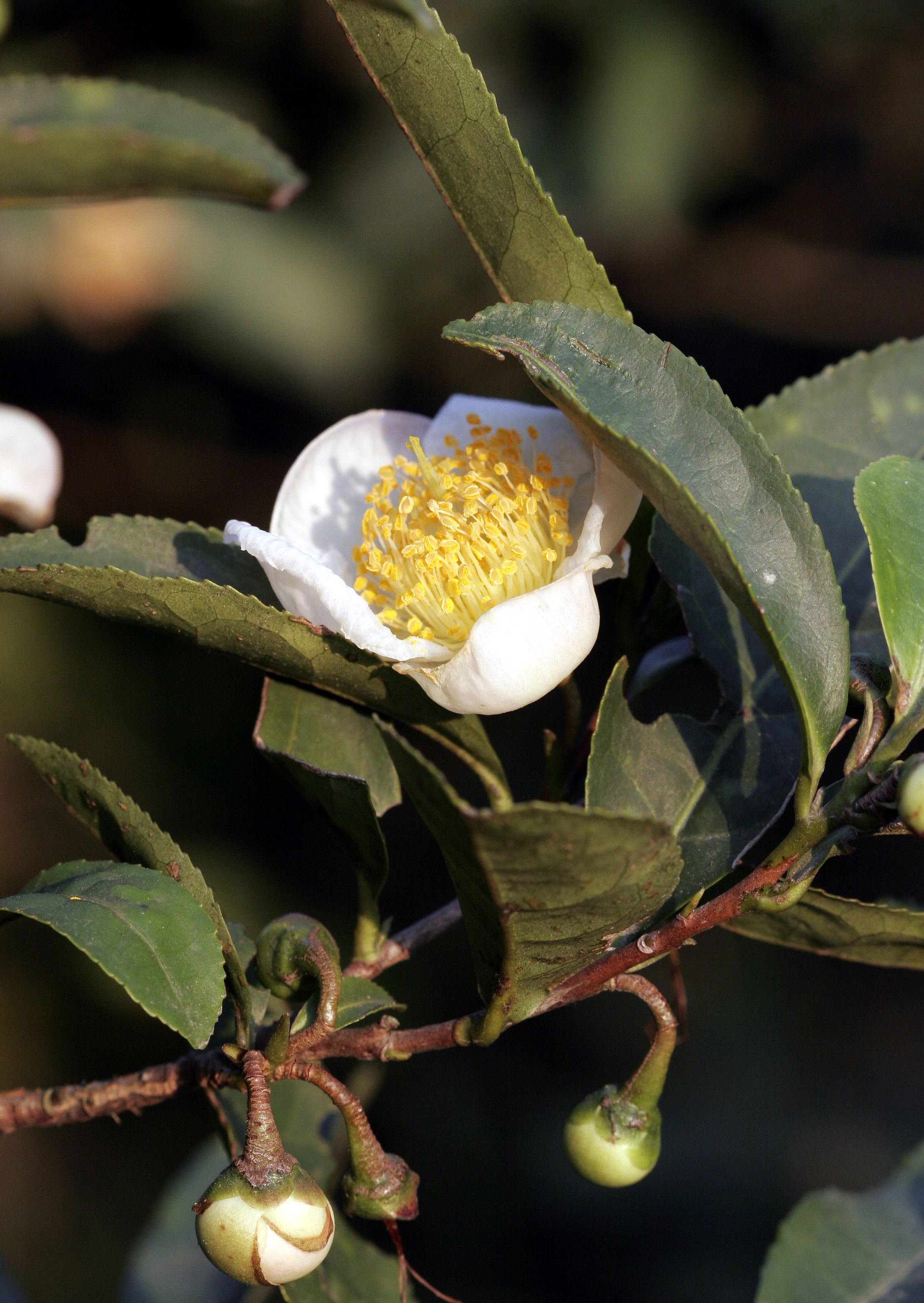 Tea blossom from Camellia sinesis in Hangzhou (China, Province Zhejiang). Longjing (Dragon Well Tea)